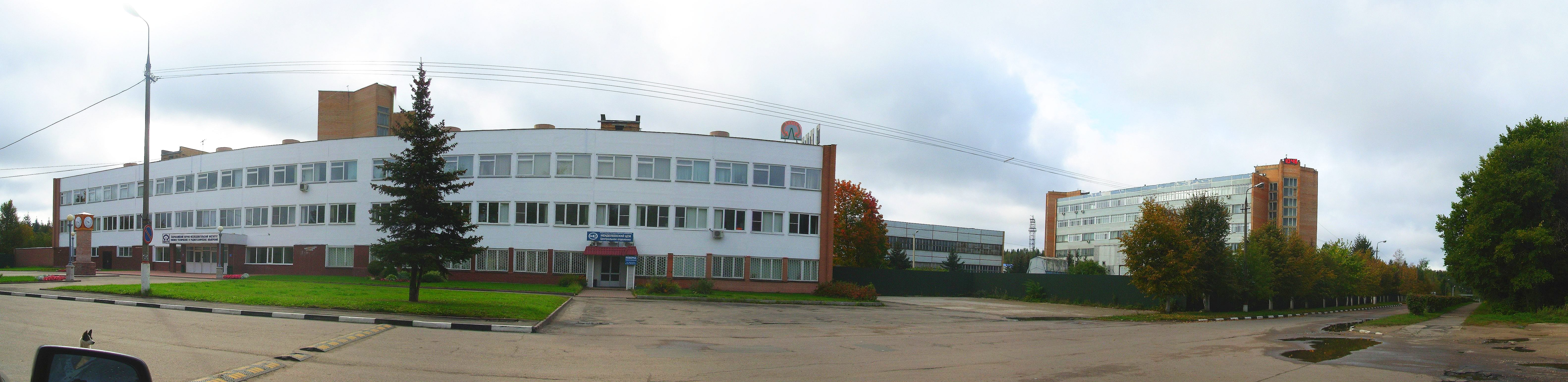 VNIIFTRI